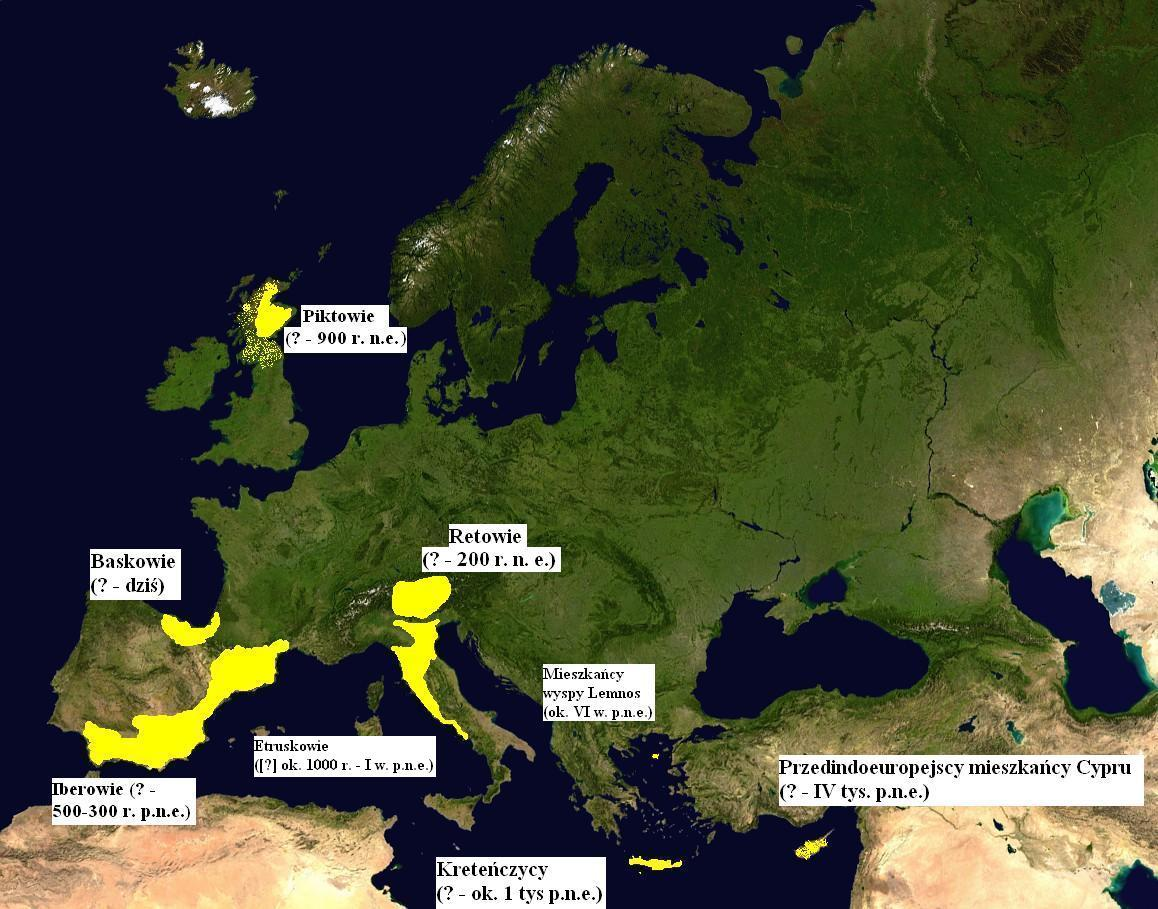 Old European culture